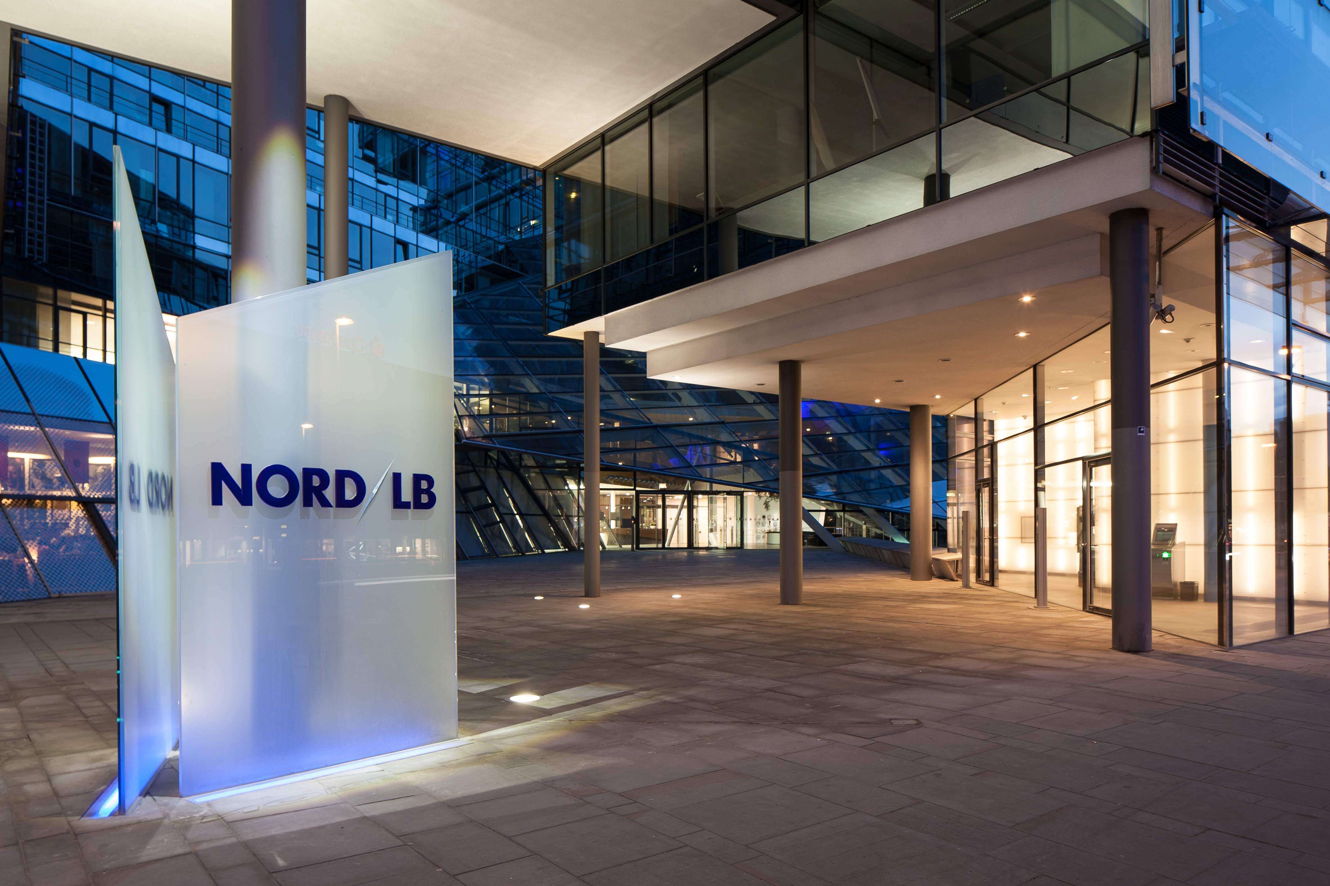 Main entrance of the Nord-LB office building located at Aegidientorplatz in Hanover, Germany.